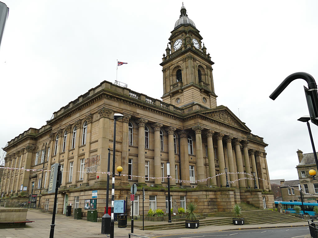 .Morley Town Hall, Queen Street